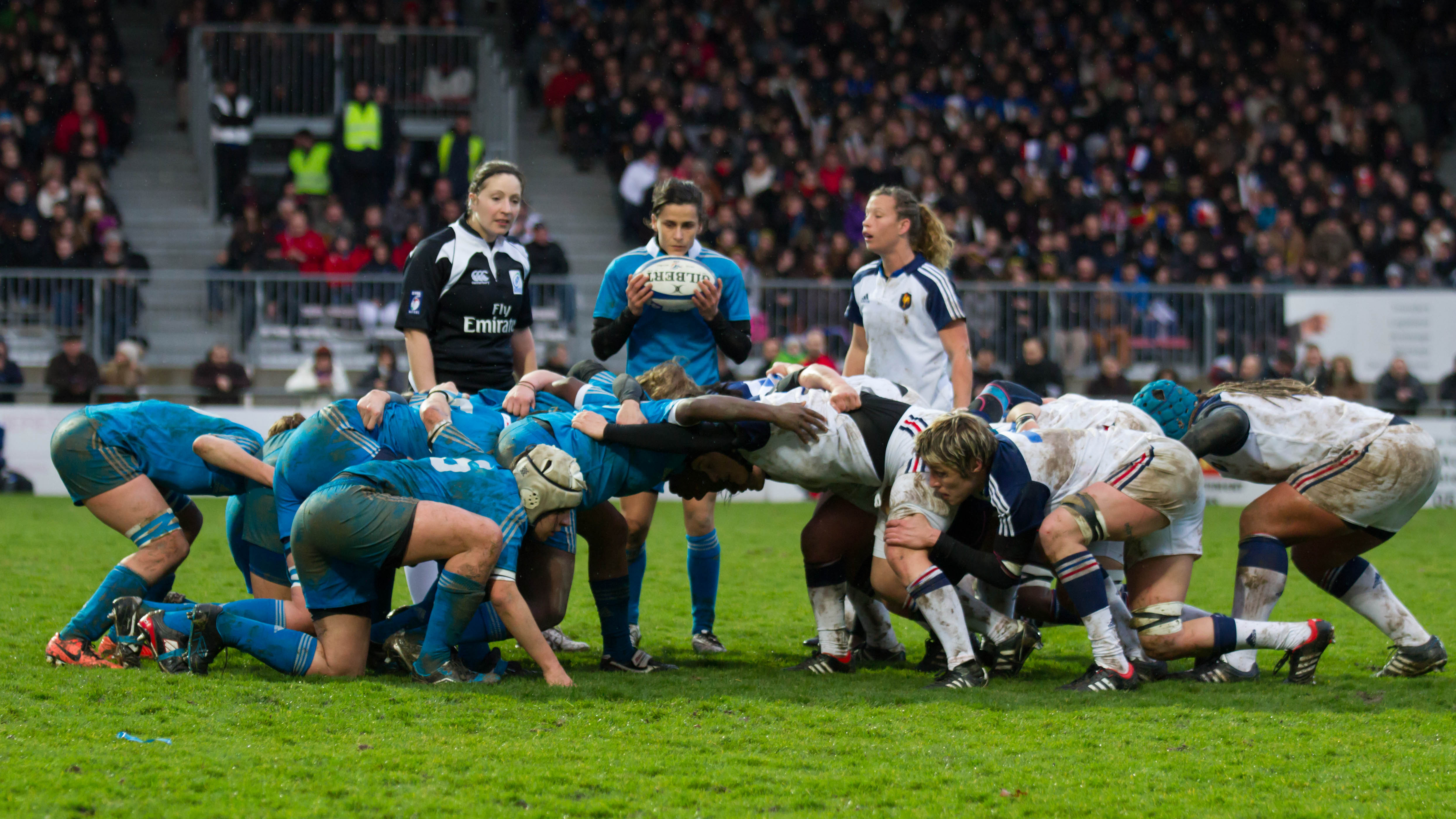 2014 Women's Six Nations Championship — 9 February 2014, Stade Ernest Argeles. Match between: France women's national rugby union team — Italy women's national rugby union team